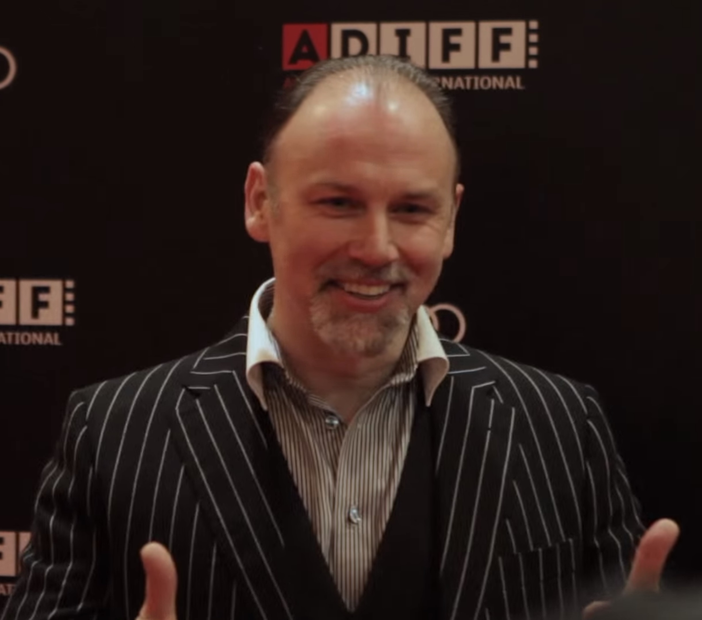 Actor Don Wycherley of the 2016 film Sing Street at the Audi Dublin International Film Festival.